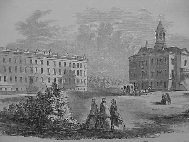 Bates College, at Lewiston, Maine, United States.